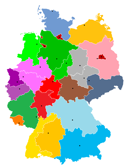 Regional courts for copyright litigation (cf. Art. 105 para. 1 of the German Copyright Act)